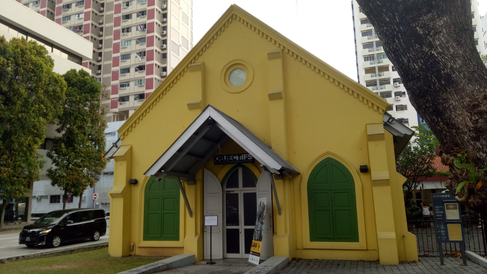 Exterior of Objectifs on 2nd February. On-going exhibition was Humble Dance of an Atheist by Toh Hun Ping.